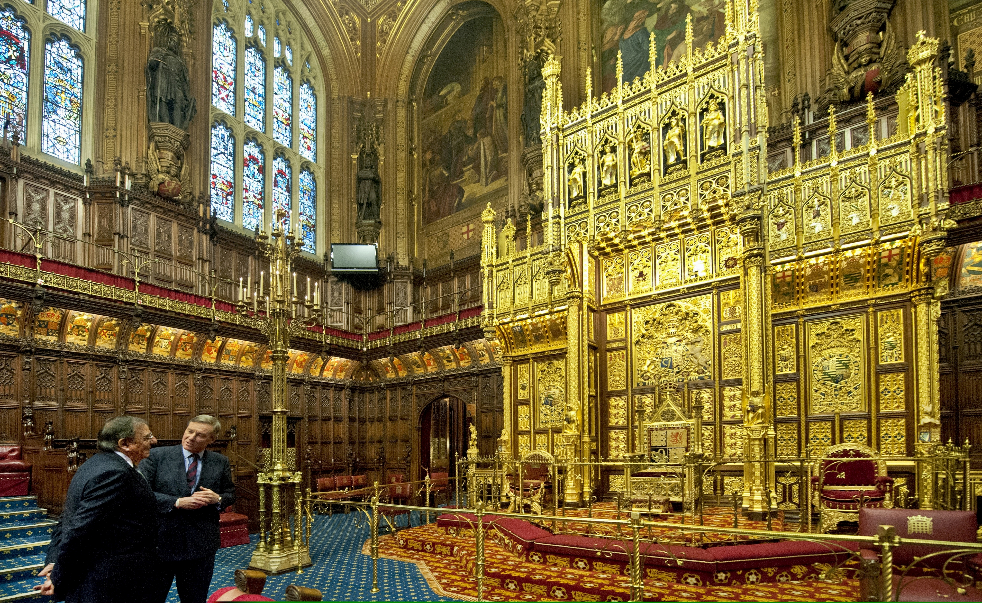 U.S. Defense Secretary Leon E. Panetta tours the House of Lords with Andrew Robathan, minister of state for the U.K.'s armed forces, in London, Jan. 18, 2013. Panetta is on a six-day trip to Europe to visit with defense counterparts and troops.